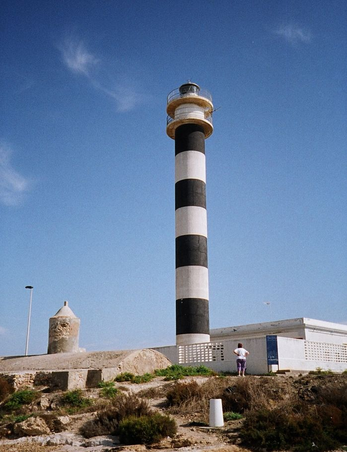 El Estacio Lighthouse. Murcia. Spain.